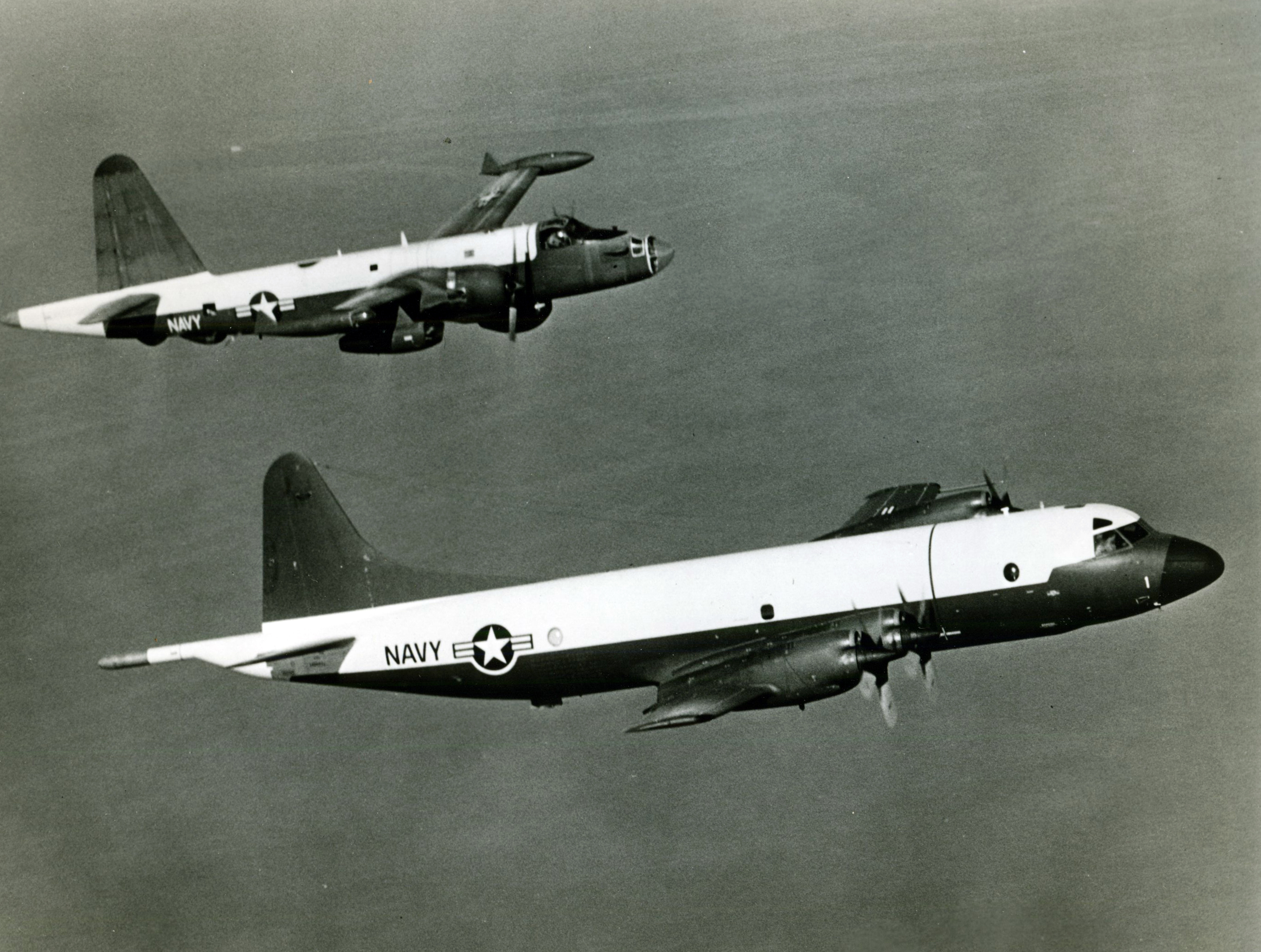 Change of guards: a U.S. Navy Lockheed P-2H Neptune and its successor, the Lockheed P-3A Orion (nearer to the camera), in 1963.